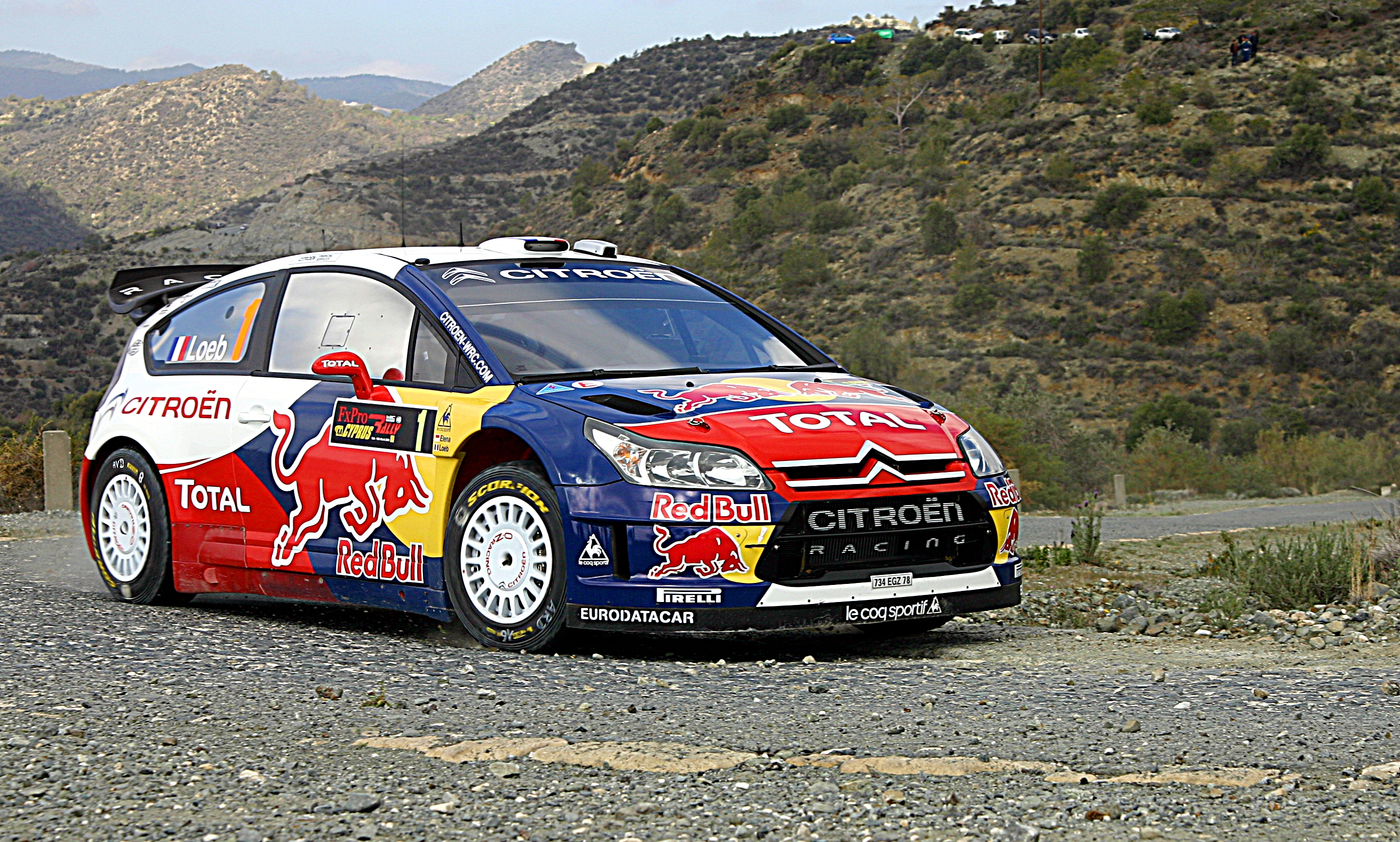 Sébastien Loeb driving his Citroën C4 WRC during the shakedown of the 2009 Cyprus Rally.